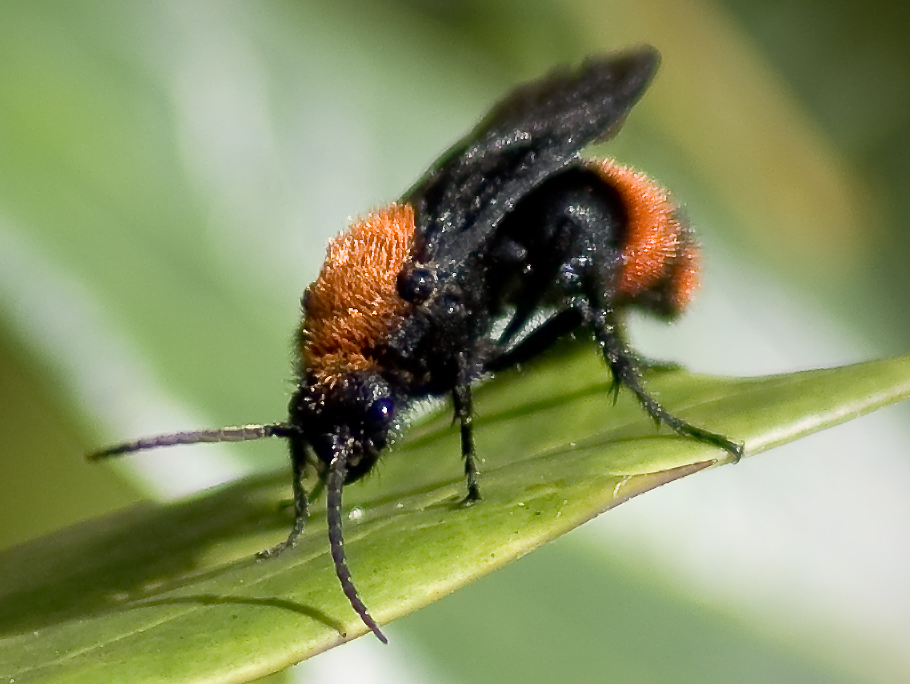 Male Dasymutilla occidentalis perched on a leaf.